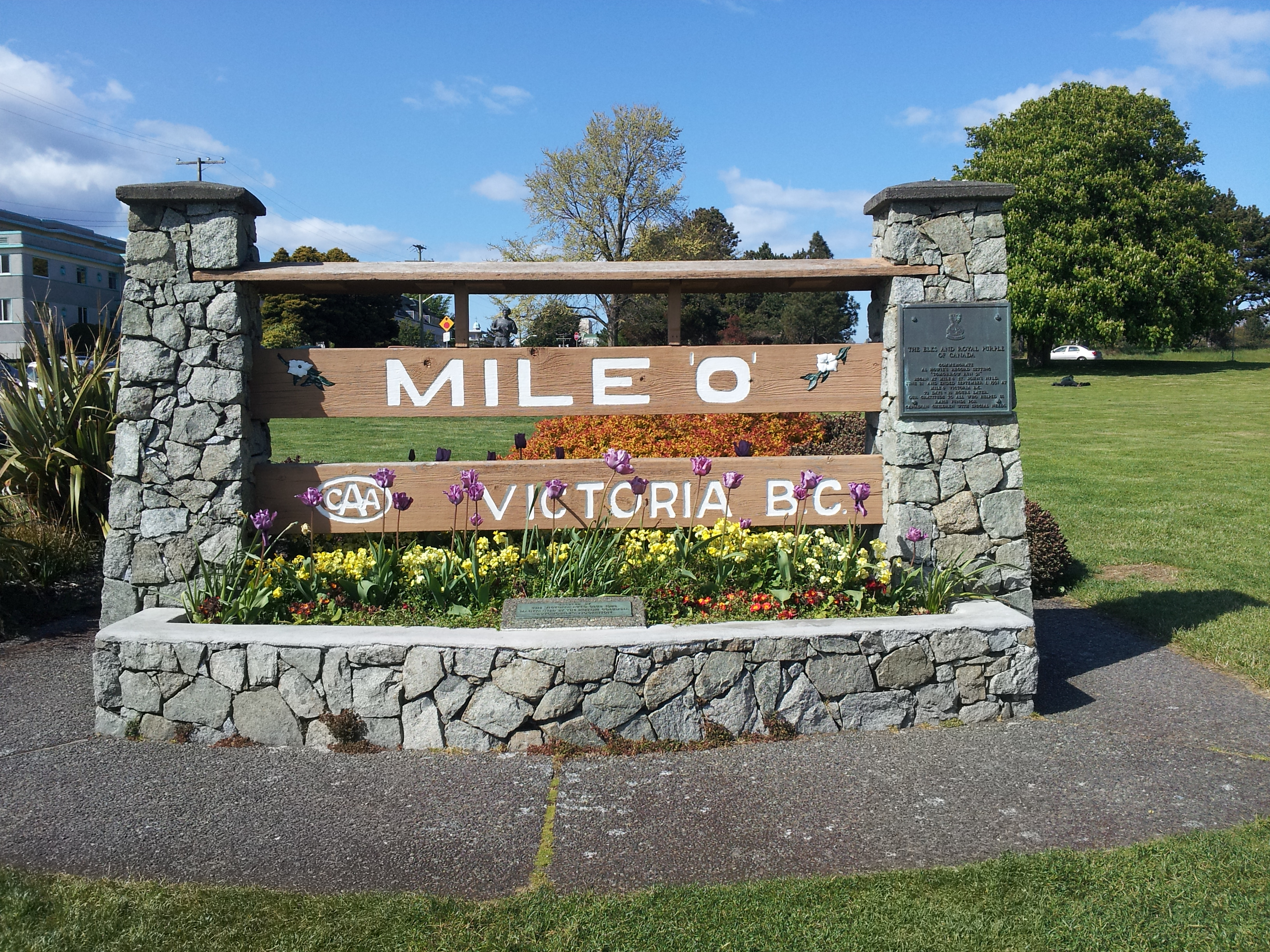 The Mile 0 marker in Victoria / B.C (Canada) is the start of the over 8000km Trans-Canada Highway